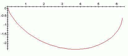 A modified cycloid is the solution for brachistochrone problem with friction, in the figure the solution for my = 0.10. and: x = (t - sin t) + mu (1 - cos t) y = (1 - cos t) + mu (t - sin t)